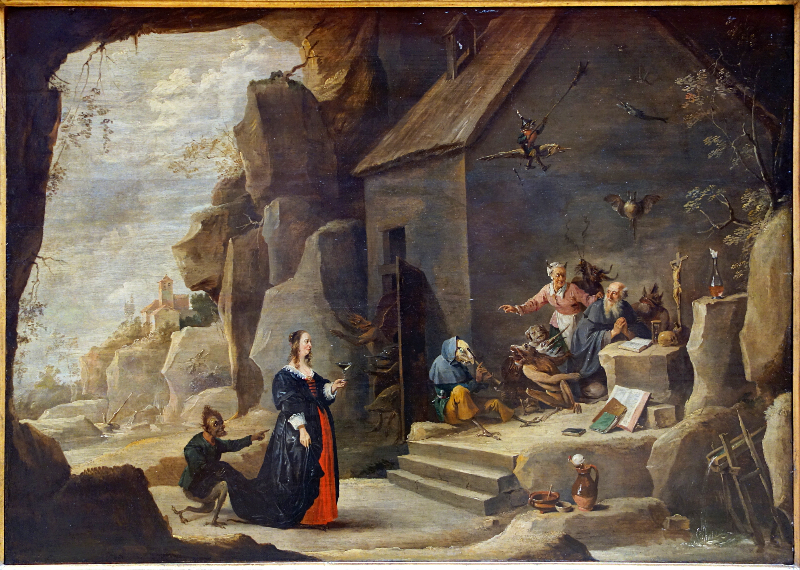 The Temptation of Saint Anthonylabel QS:Len,"The Temptation of Saint Anthony"label QS:Lfr,"La tentation de saint Antoine."